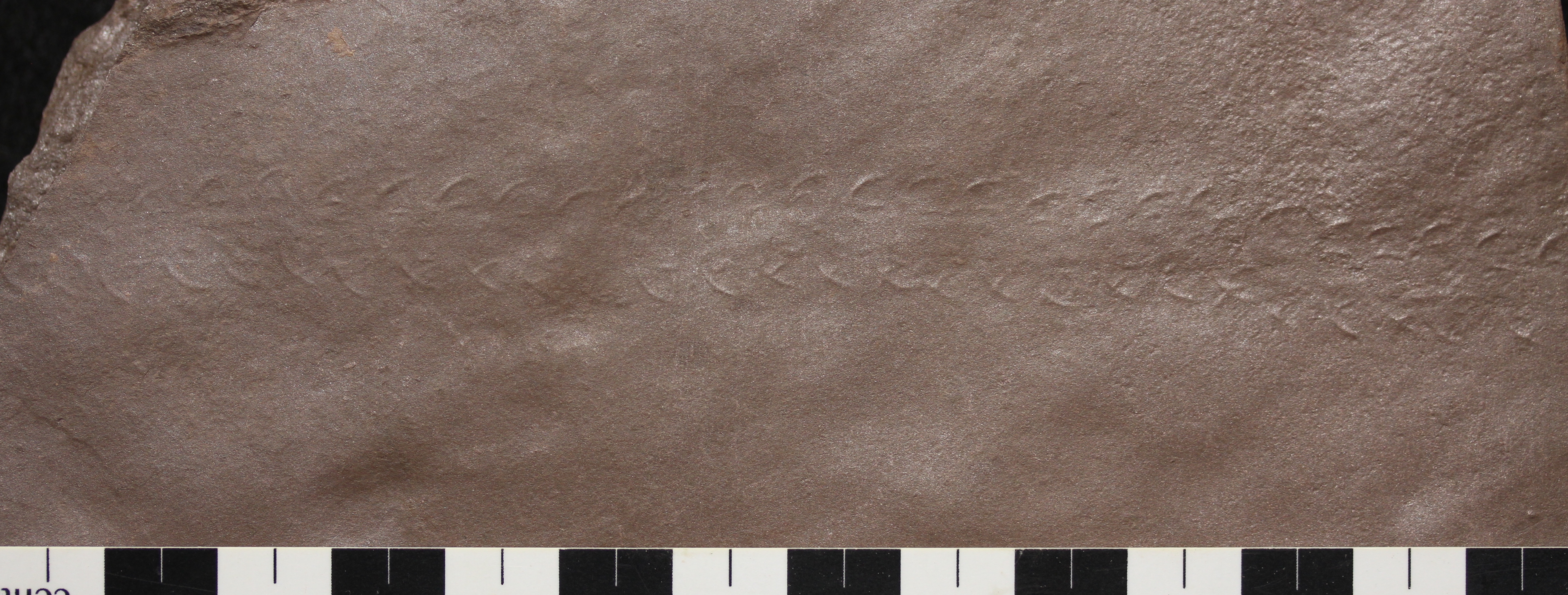 A trackway of the trace fossil Bifurculapes laqueatus (positive hyporelief, i.e. casts on the bottom surface of the bed) from the Early Jurassic East Berlin Formation (Hartford Basin) of Holyoke, Massachusetts (not the same specimen as this one). Scale is in cm.